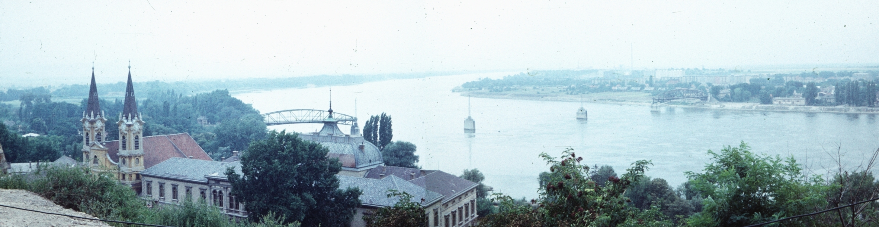 A sight of the Danube bridge in Esztergom destroyed in World War II.